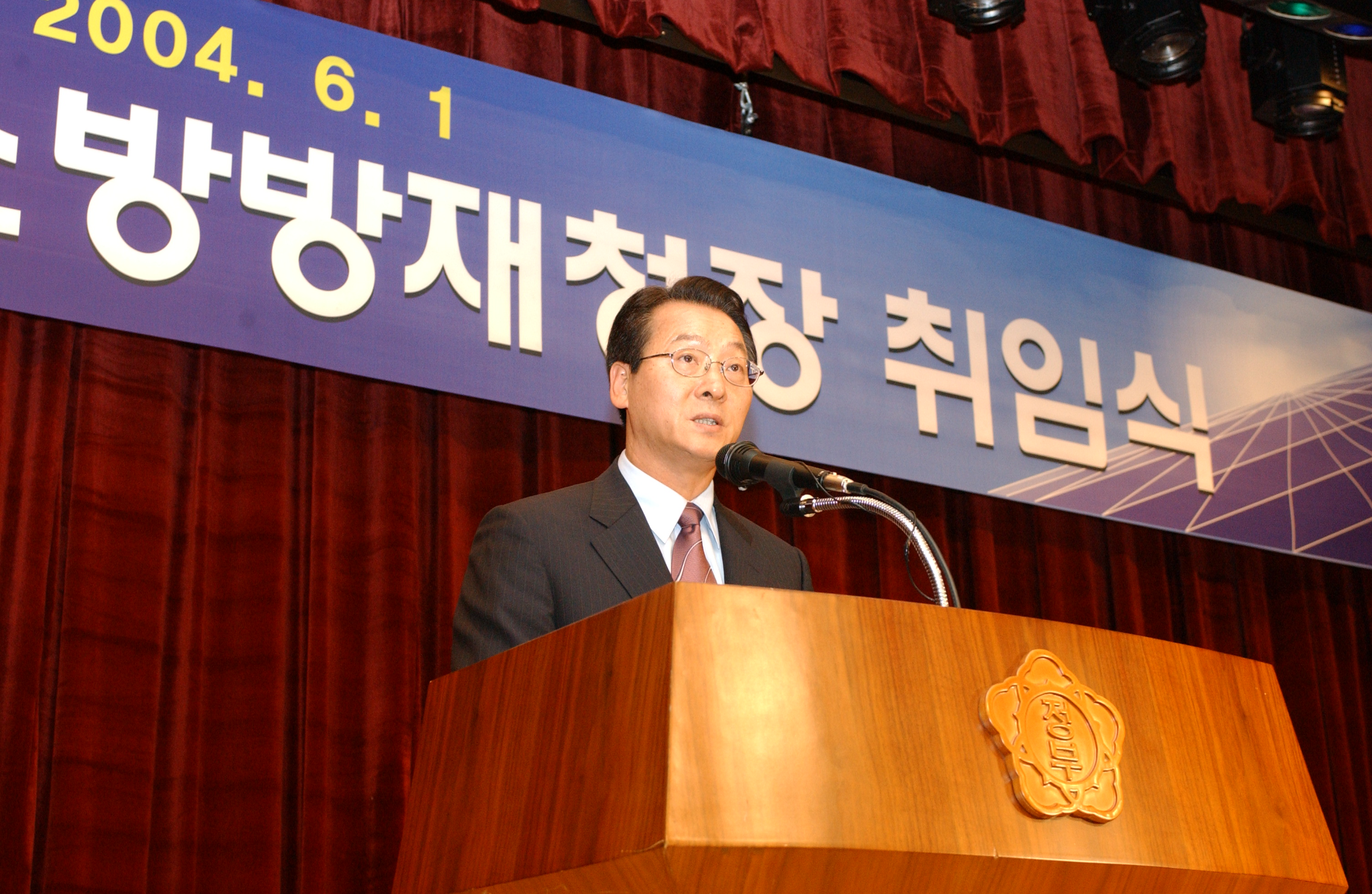 서울특별시 소방재난본부 소장 사진. photos of Seoul Metropolitan Fire&Disaster Headquarters. 이 파일은 크리에이티브 커먼즈 저작자표시-동일조건변경허락 4.0 국제 라이선스로 배포됩니다. 단 누구인지 구별 가능한 특정 인물이 사진에 포함되어 있을 경우 사용 전에 서울특별시 소방재난본부 및 해당 인물의 승인을 받으셔야합니다. 감사합니다. evidence of permission